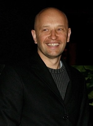 Tadas Karosas - businessman from LithuaniaLietuvių: Tadas Karosas - Lietuvos verslininkas. T.p. Linas Tadas Karosas